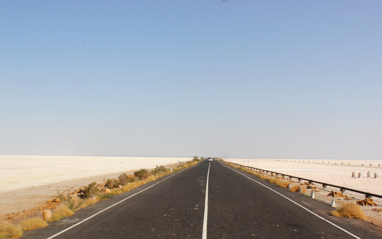 Salt fields of the Rann of Kutch, Gujarat India January 2015